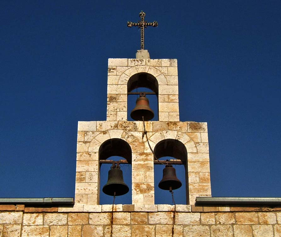 Church bells, Al Husun Orthodox Church, al-Husn, Jordan